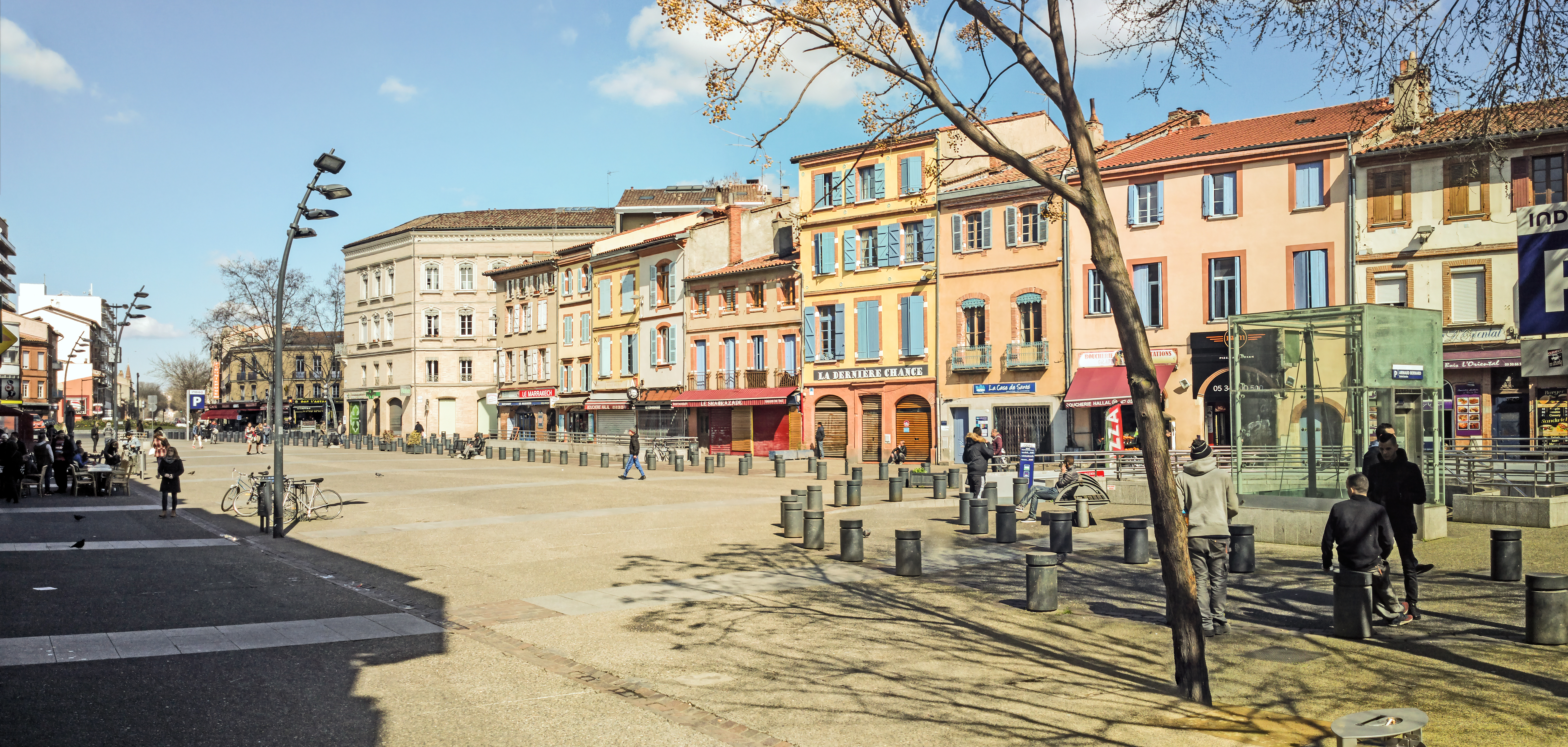 Place Arnaud-Bernard in Toulouse - Southwest exposure